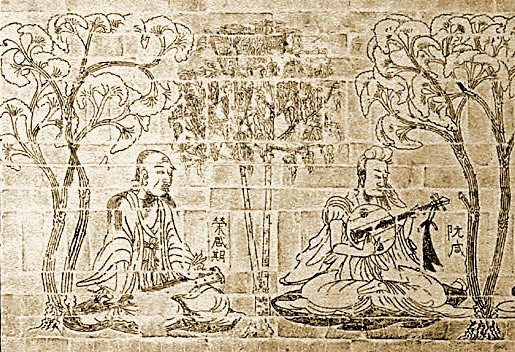 A part of a molded-brick relief : "Seven Sages of the Bamboo Grove and Rong Qiqi", found in a Nanjing Xishan Temple (or tomb, descriptions in different languages say different things), from the Southern dynasties period (5th-6th. centuries A.D.) This part of the wall depicts Rong Qiqi (left) and Ruan Xian (right). Source: Nanjing Xishan Temple, Big brick wall bamboo forest seven sage map.